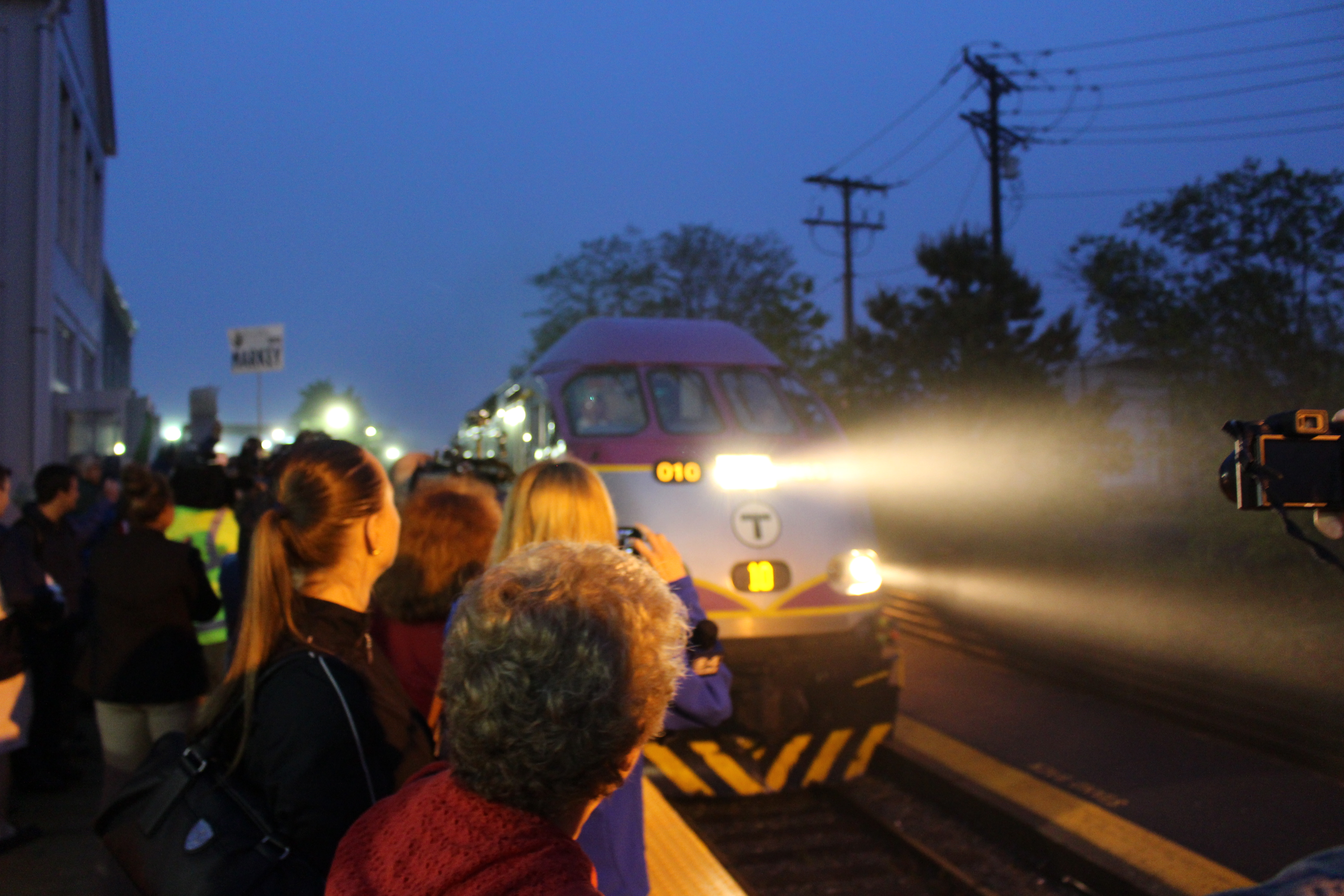 Standing on the platform at the Hyannis Transportation Center, as the inaugural run of CapeFLYER arrives.